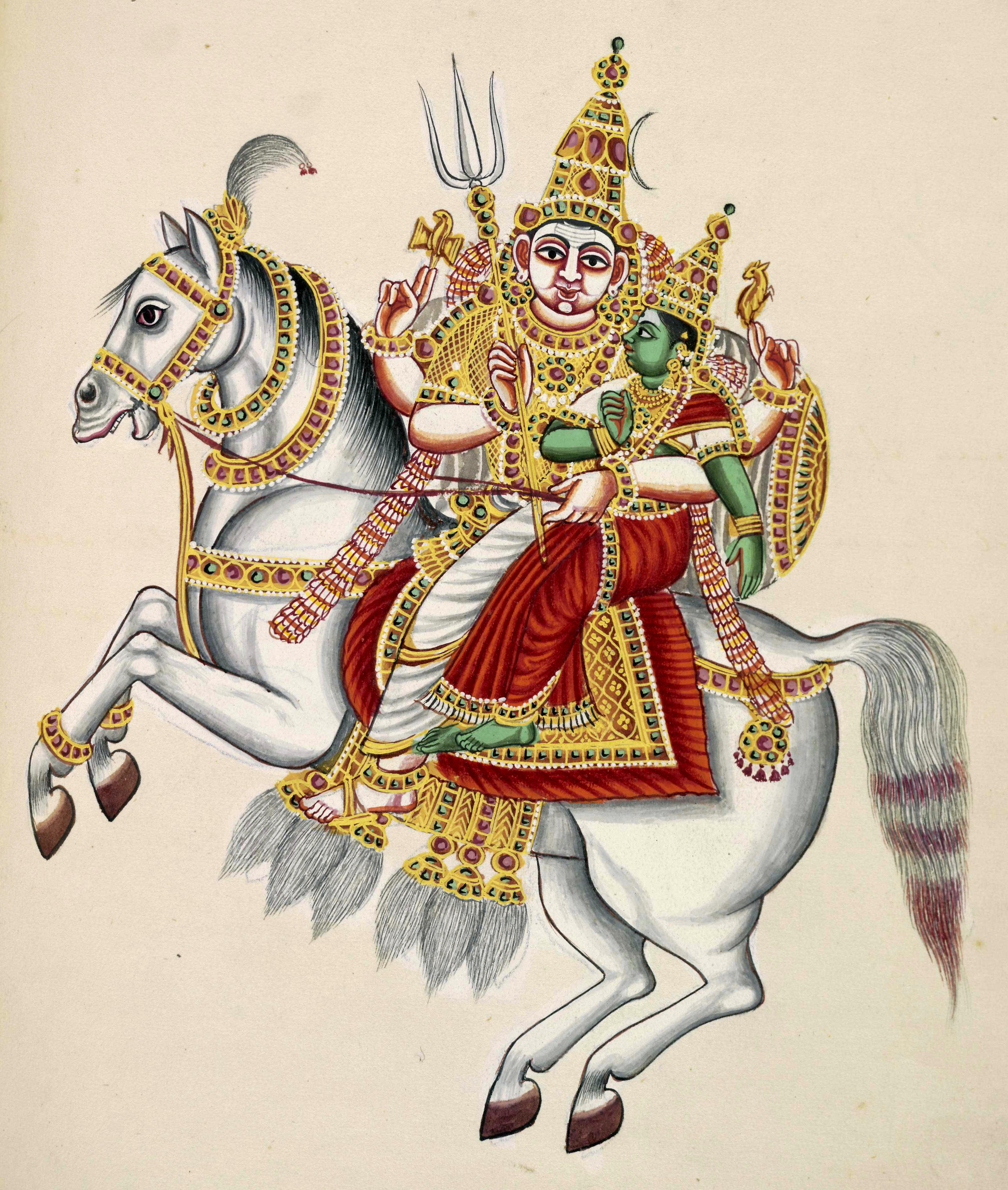 Khandoba